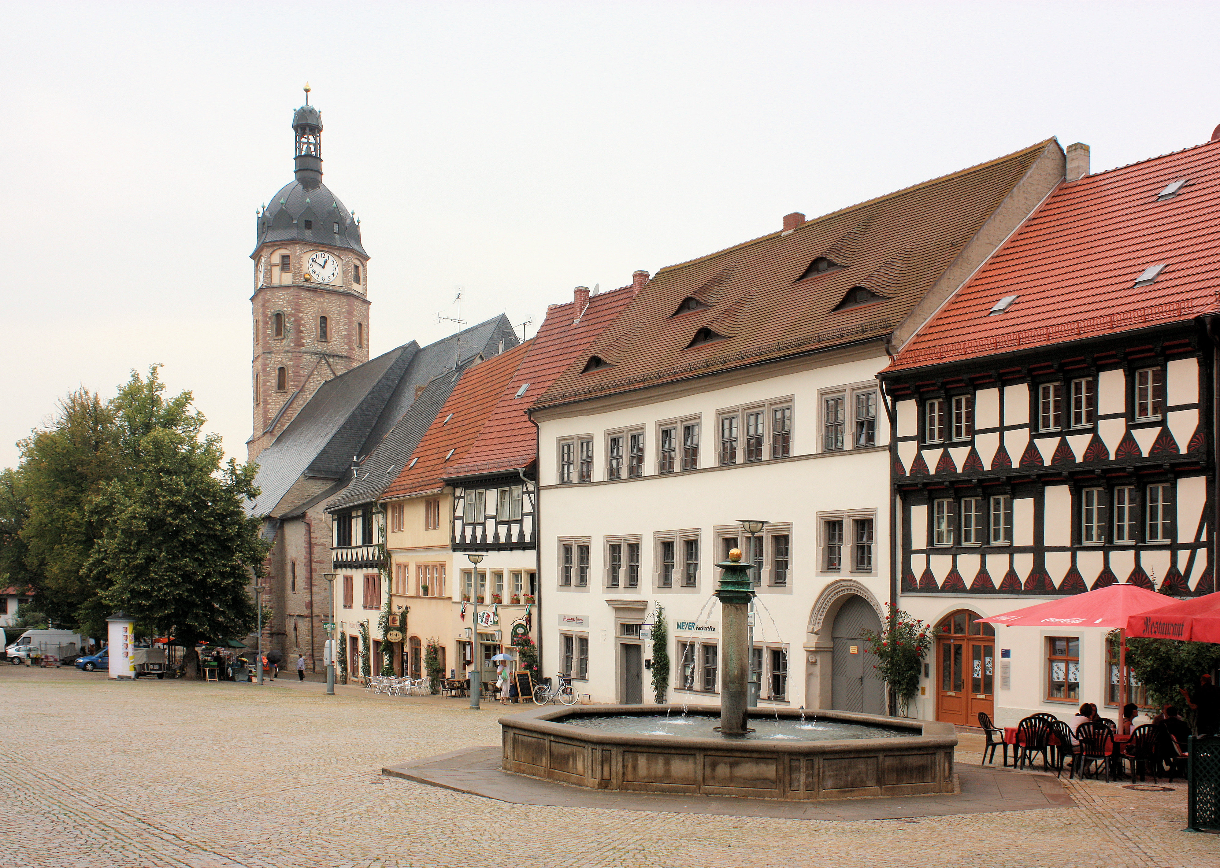 Sangerhausen, the town square